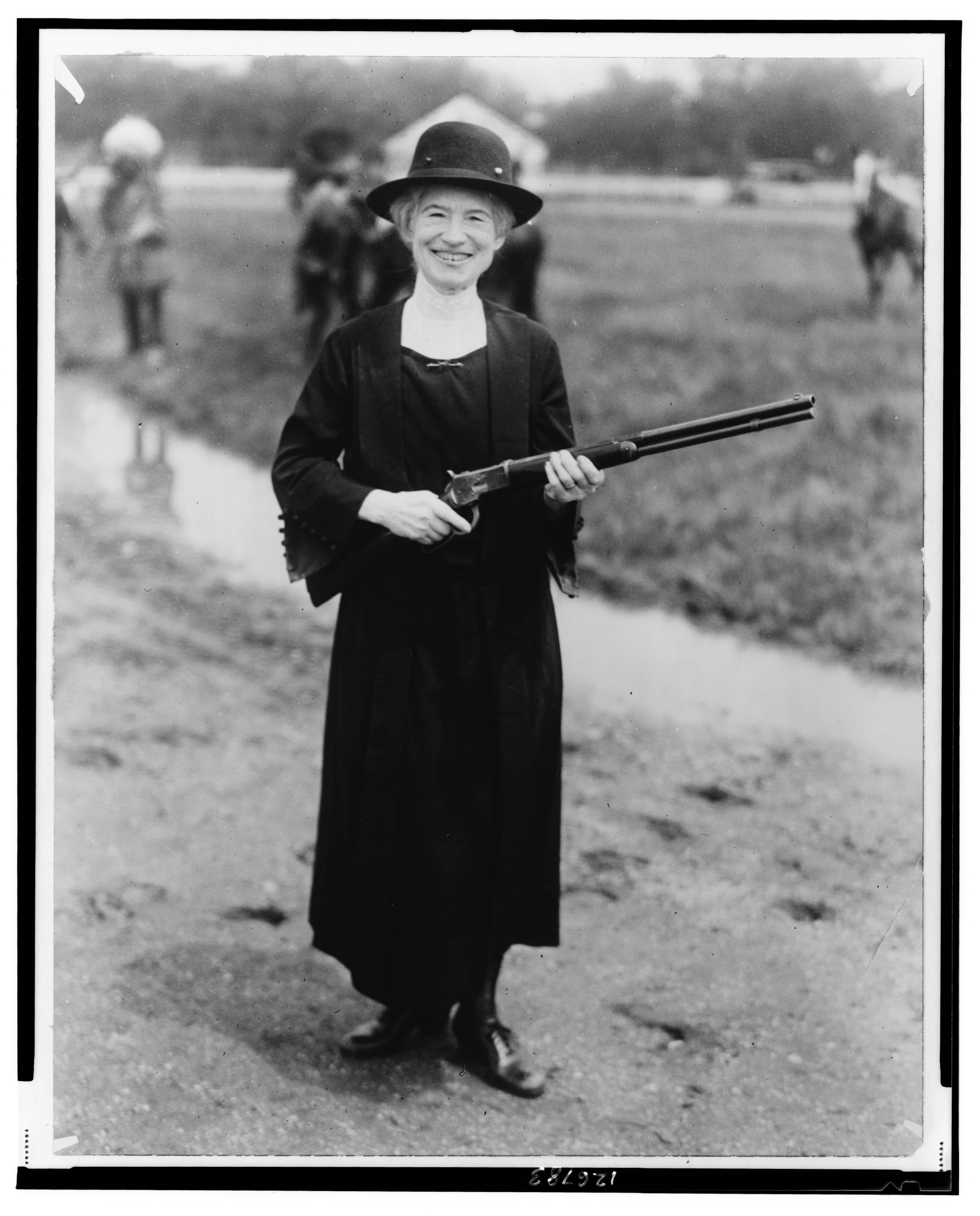 Title: Annie Oakley, with gun Buffalo Bill gave her / staff photo. Abstract/medium: 1 photographic print.